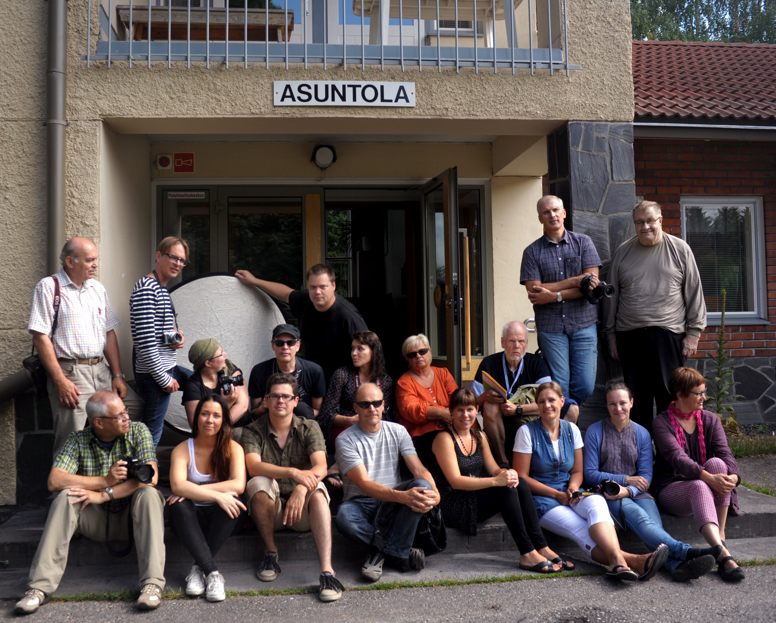 Participants for the summer camp of the Association of Finnish Camera Clubs 2013 in Joutseno, Lappeenranta, Finland.